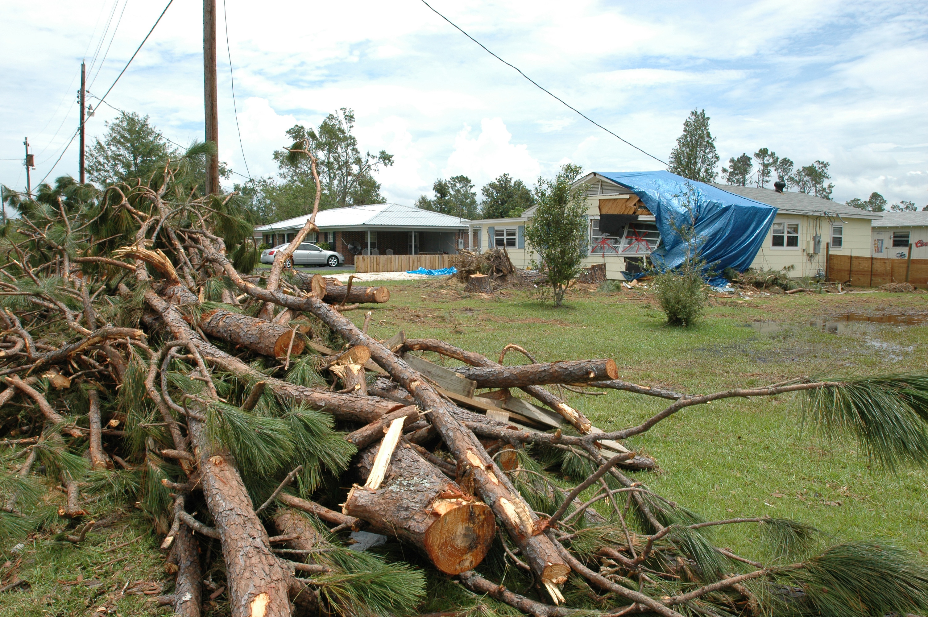 Homes damaged by fallen trees in Alabama as a result of Hurricane Dennis in 2005.